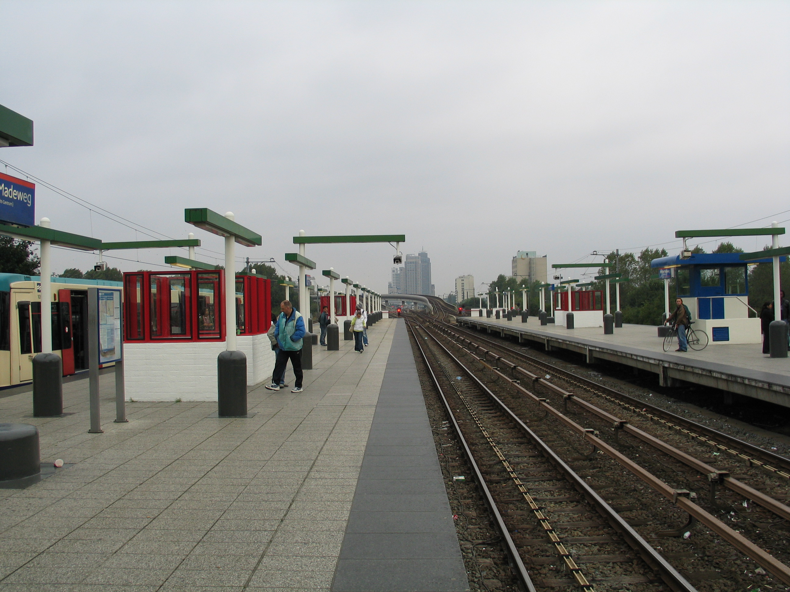 This picture shows the Amsterdam metro station Van der Madeweg in the Netherlands. Author:Mig de Jong